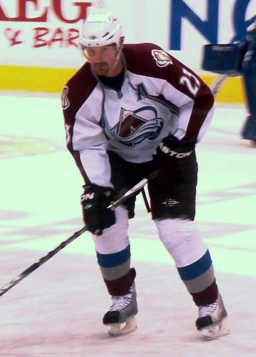 Colorado Avalanche forward Milan Hejduk in a game against the Vancouver Canucks in Vancouver, British Columbia, on November 1, 2009.